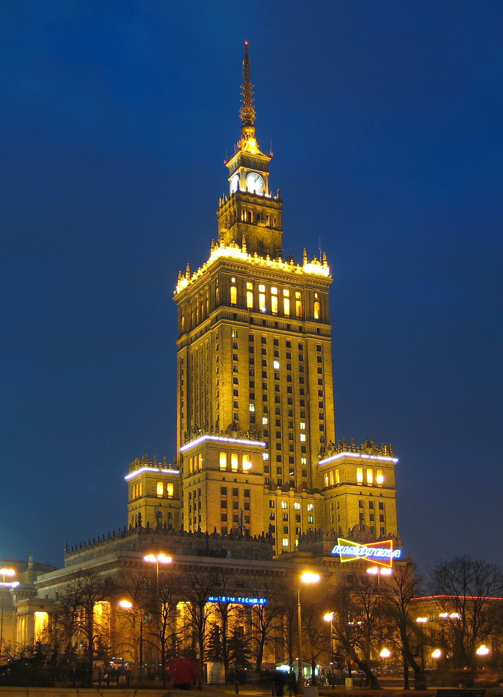 Palace of Culture and Science in Warsaw, Poland